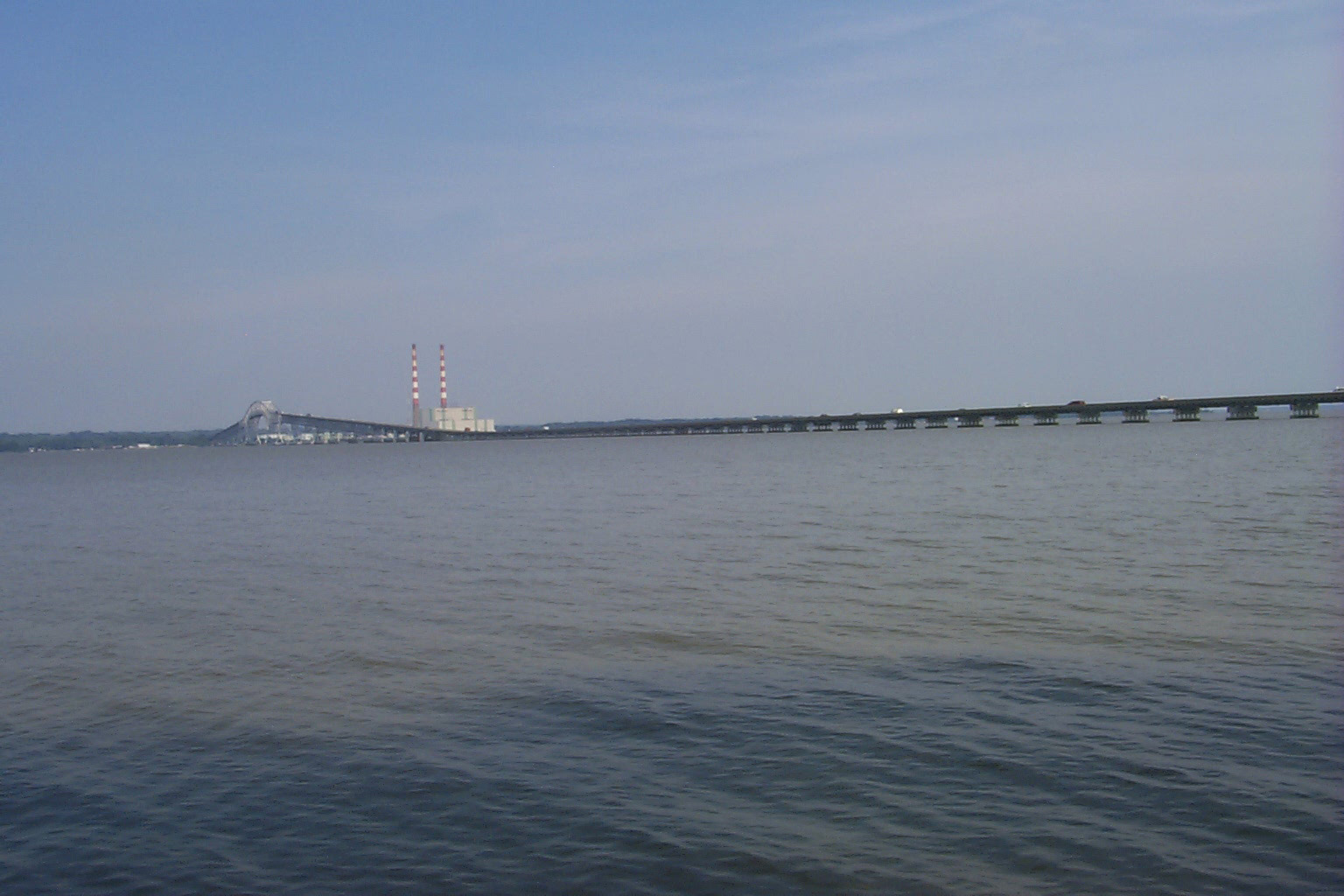 Governor Harry W. Nice Memorial Bridge spanning the Potomac River between Maryland and Virginia. The Morgantown Generating Station is in the background. This picture was taken by me, David Podgor in June of 2003.